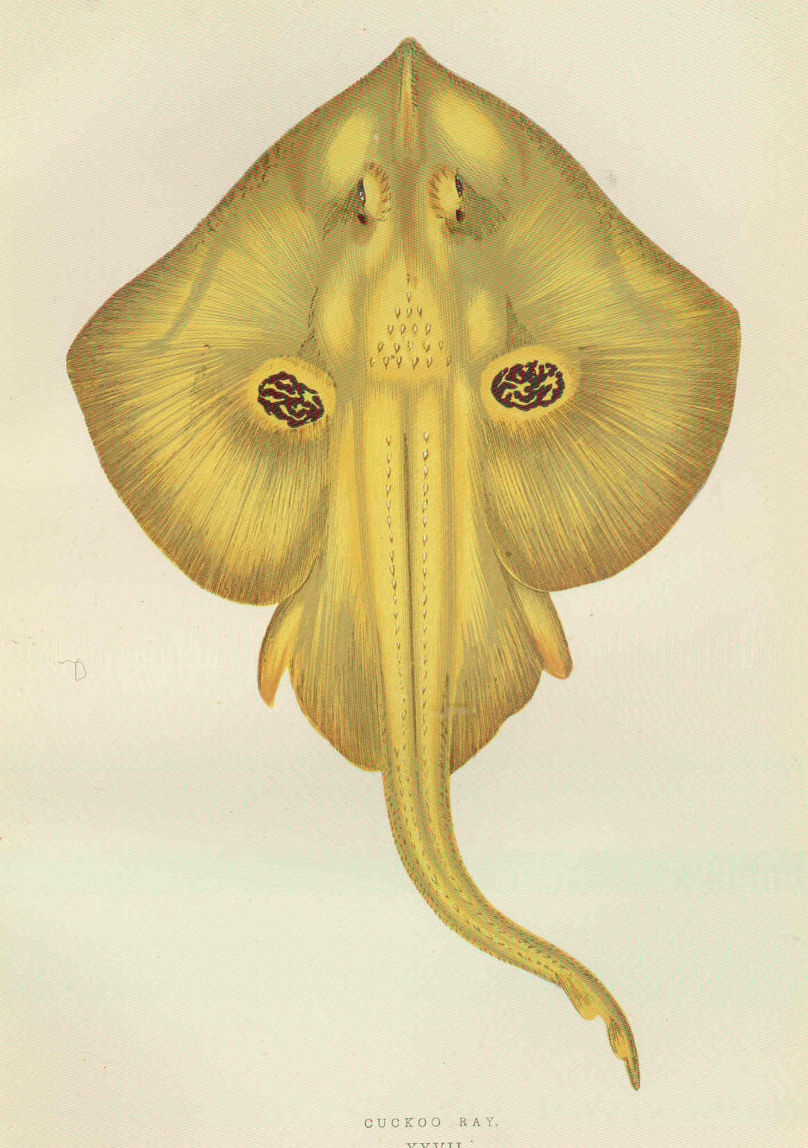 Cuckoo Ray Raie miraletus Subject: Rays (Fishes) Tag: Fish